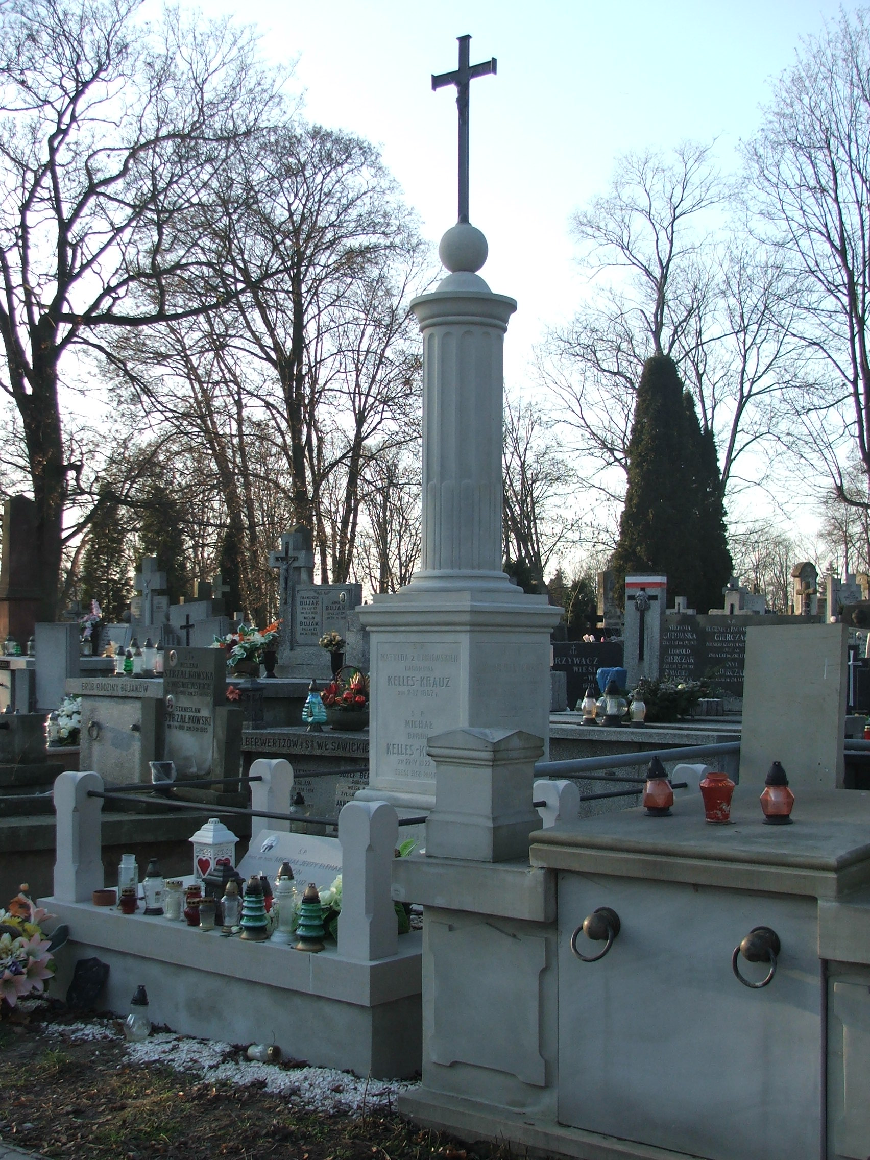 Roman Catholic cemetery in Radom - tomb of Kelles-Kraauz family